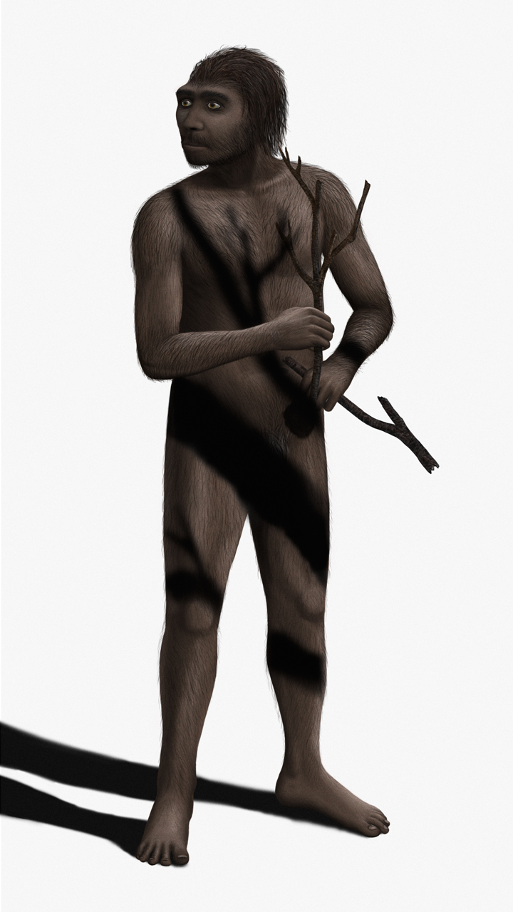 Homo erectus male, NOTE: I often update my images. If you want to have any of my images on a website, please (if possible) don’t host/save it to the website server. I’d prefer it if the image's Wikimedia URL is used. This means that if I update an image, it will be updated on the site as well. Thanks.